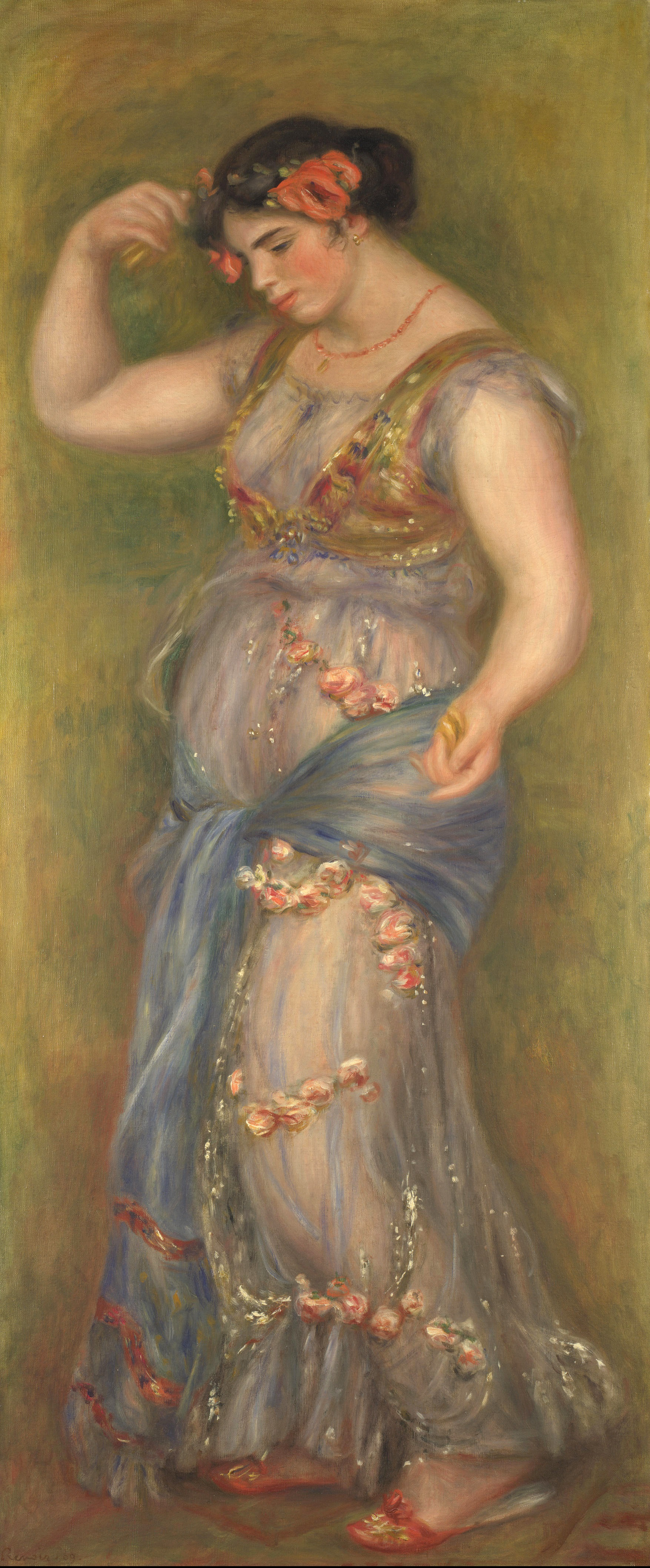 Pair of Dancing Girls with Musical Instruments